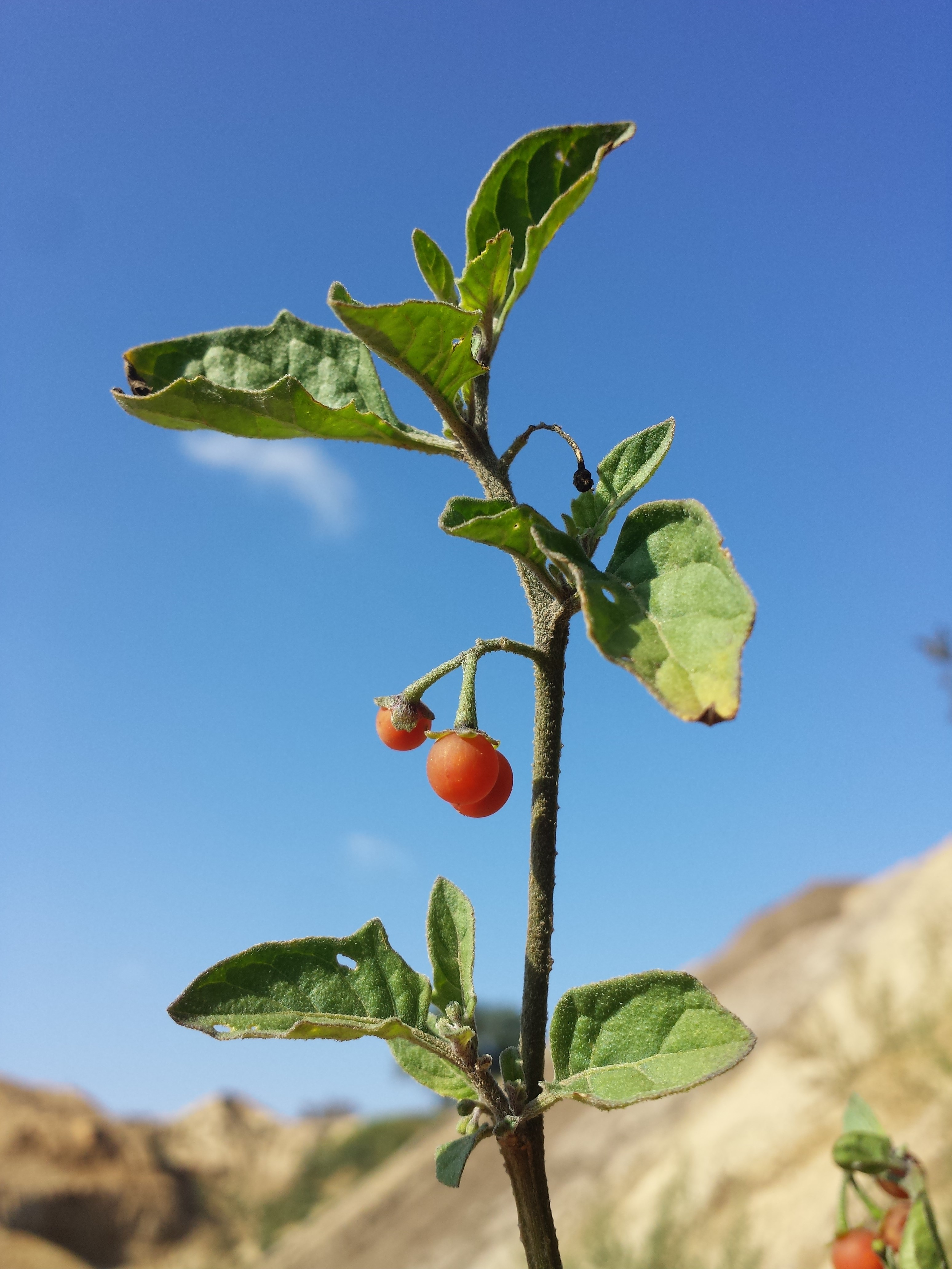 Infructescence Taxonym: Solanum villosum subsp. alatum ss Fischer et al. EfÖLS 2008 ISBN 978-3-85474-187-9 Location: next to Hatzenbach, district Korneuburg, Lower Austria - 225 m a.s.l. Habitat: quarry